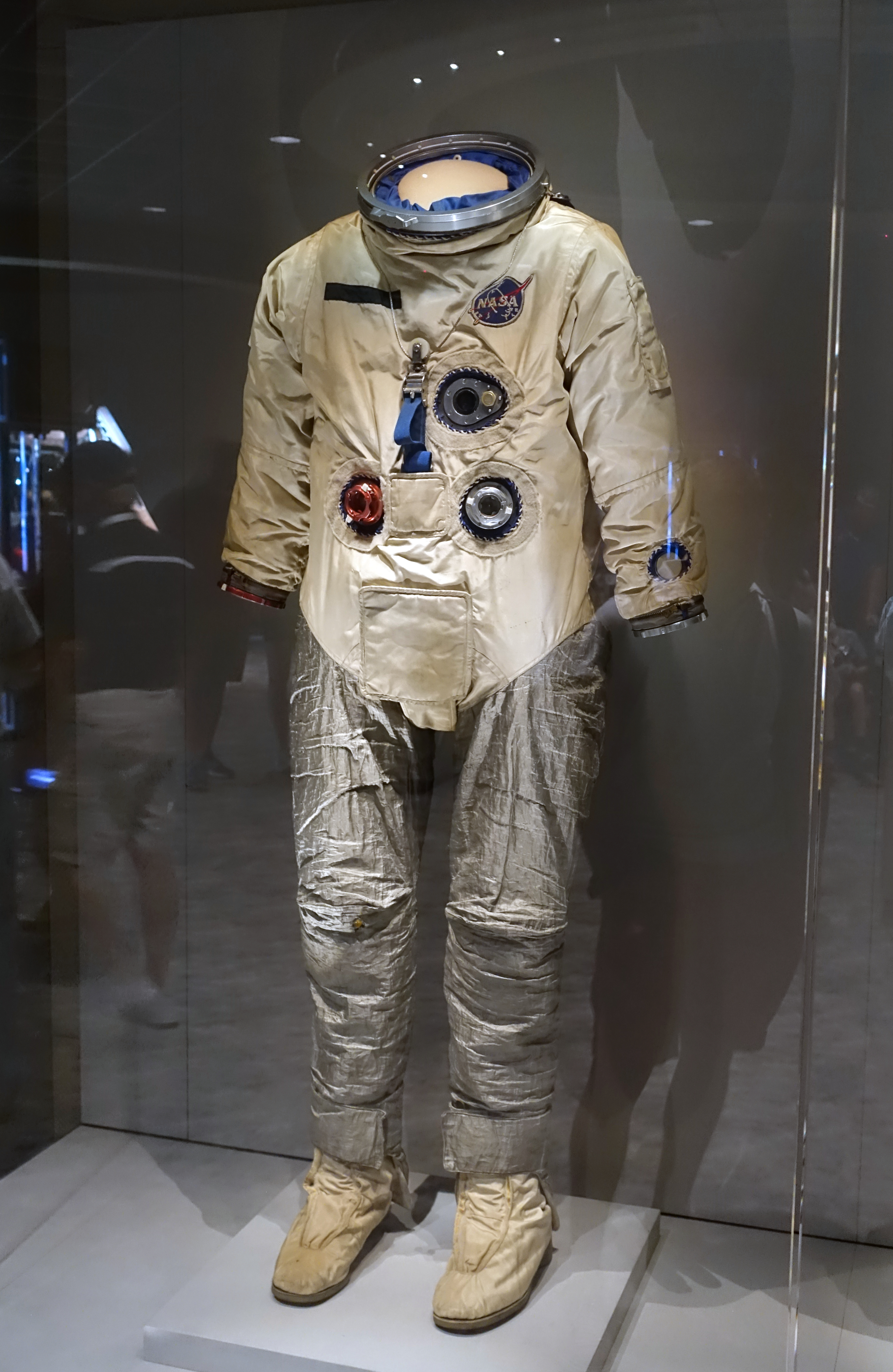 Exhibit at the Kennedy Space Center - Cape Canaveral, Florida, USA.